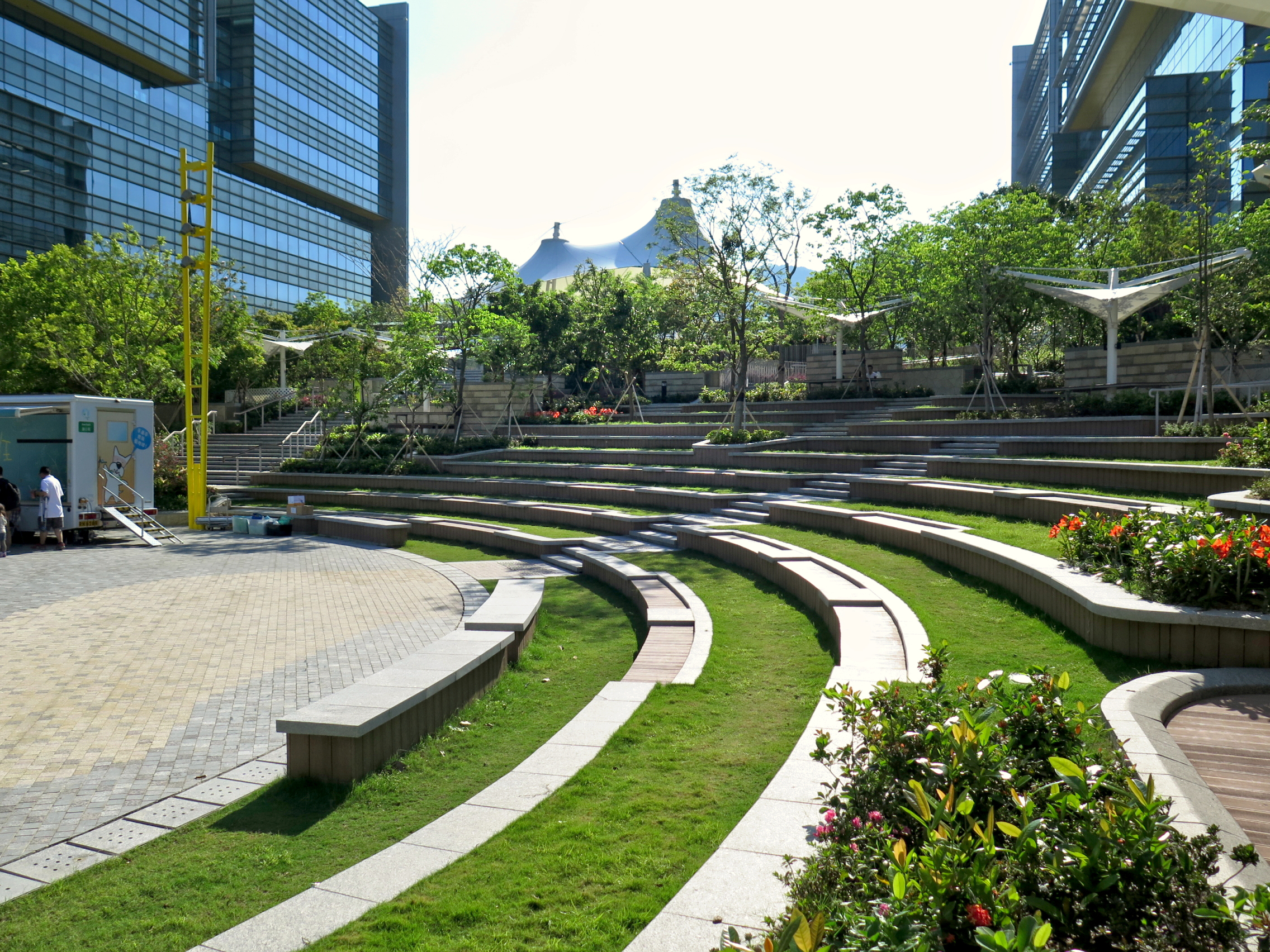 Hong Kong Science Park Phase 3 Building